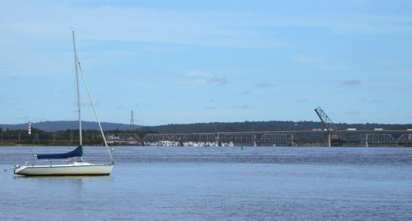 Connecticut River near its mouth, as seen from Point Saybrooke, Old Lyme